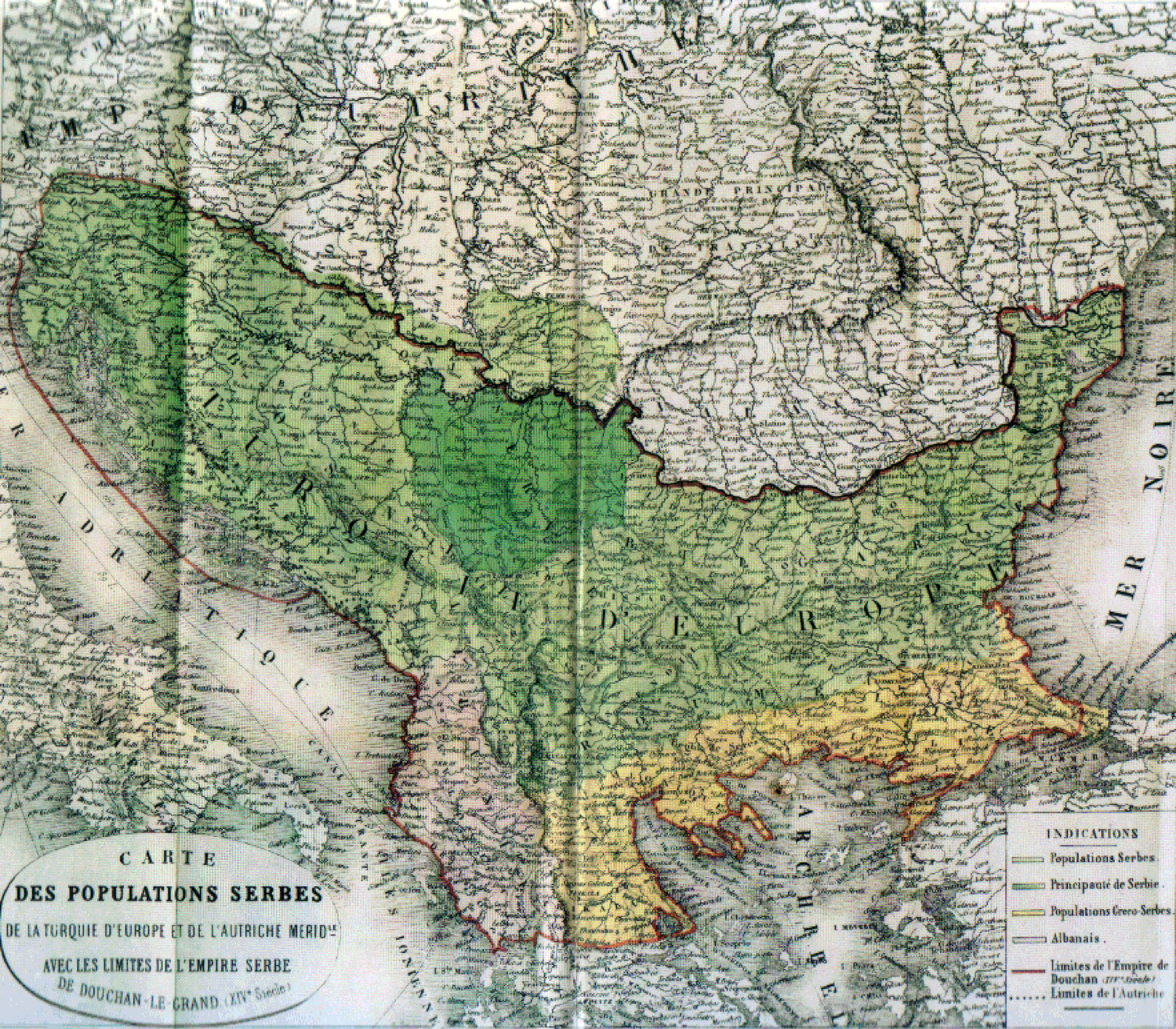 Map published during 1862 in Paris. Title of the map is: "Map of the Serb population of Turkish Europe and of Southern Austria with the borders of the Serbian Empire of Dushan the Great (XIV. century)" - the translation from the French original. The map shows the extent of South Slavs.